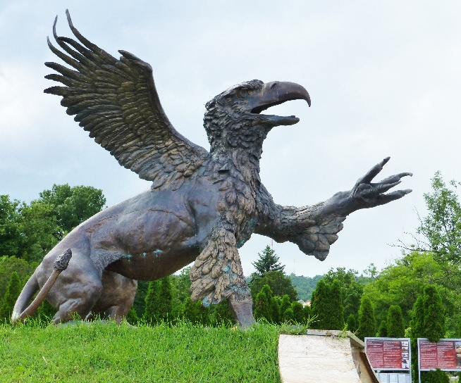 Griff - Griffon - Griffin - Gryphon ~ A very large statue by Veres Kalman (2007) visible at the main entrance of the Farkasréti cemetary in Budapest, Hungary. Note that the front legs of the Lion's body are actually the talons of the eagle.